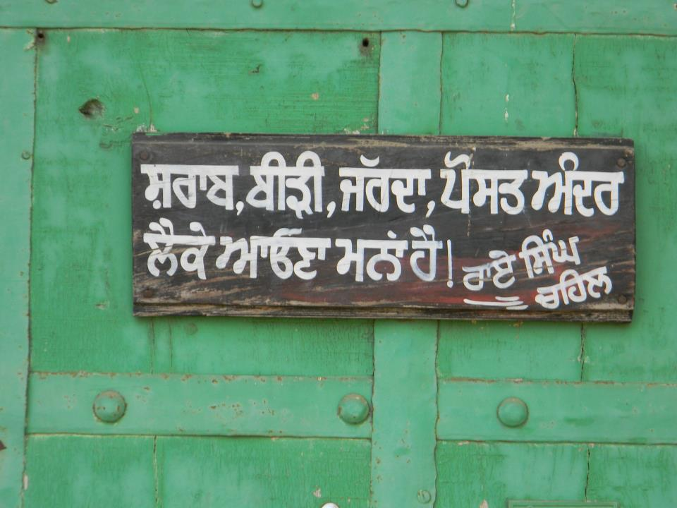 Gate preaching de-addiction